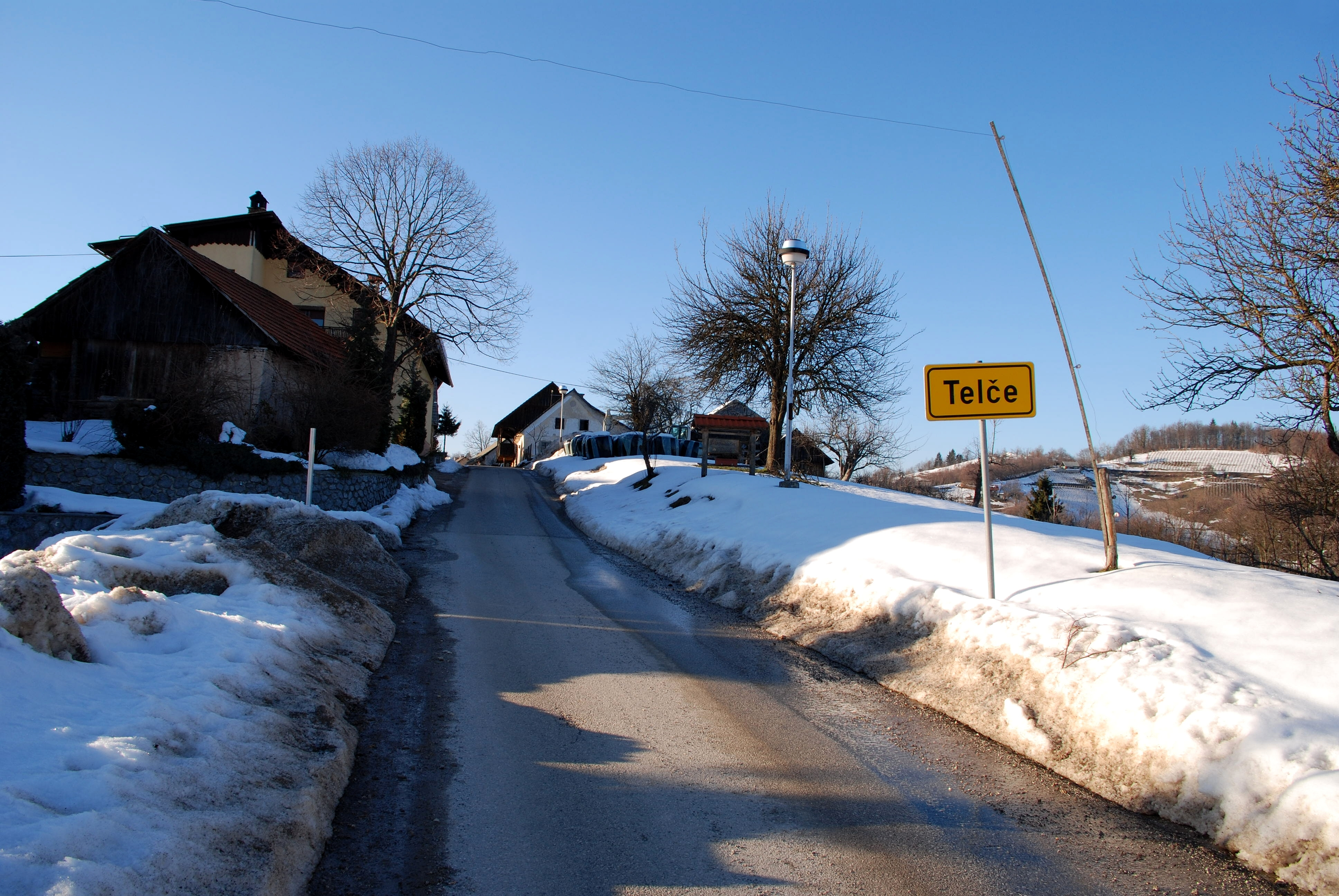 The village of Telče (Municipality of Sevnica, Slovenia) from the southeast.